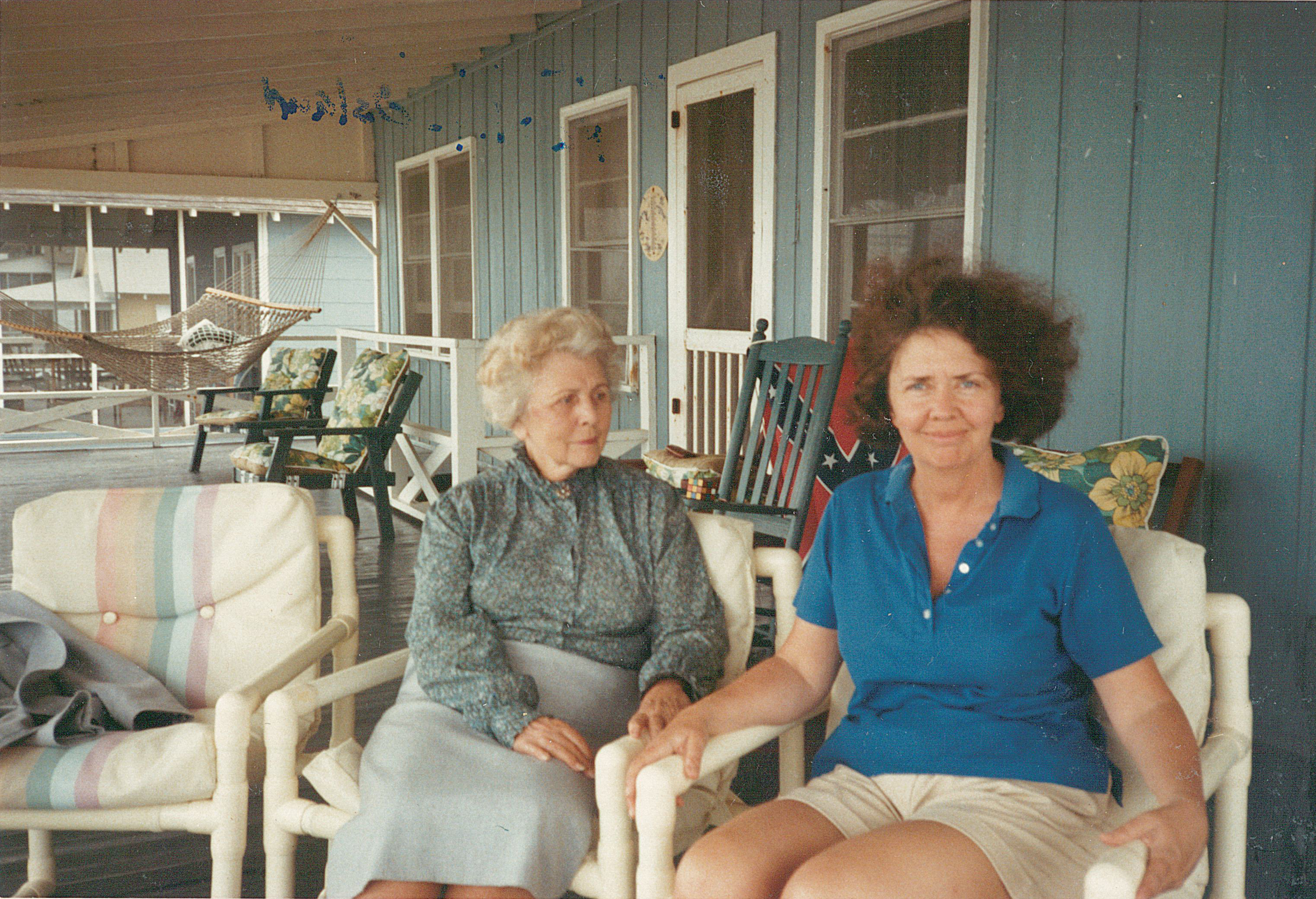 Gail Godwin with her mother in 1985 at Pawley's Island